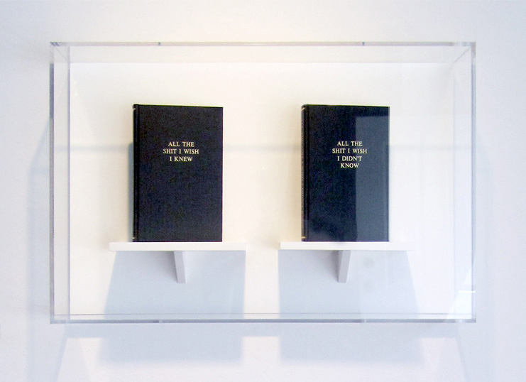 Photo of 'Tomes' from JG Mair's Thought Control Series